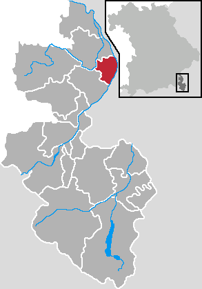 Locator maps of municipalities in Bavaria - District Berchtesgadener Land